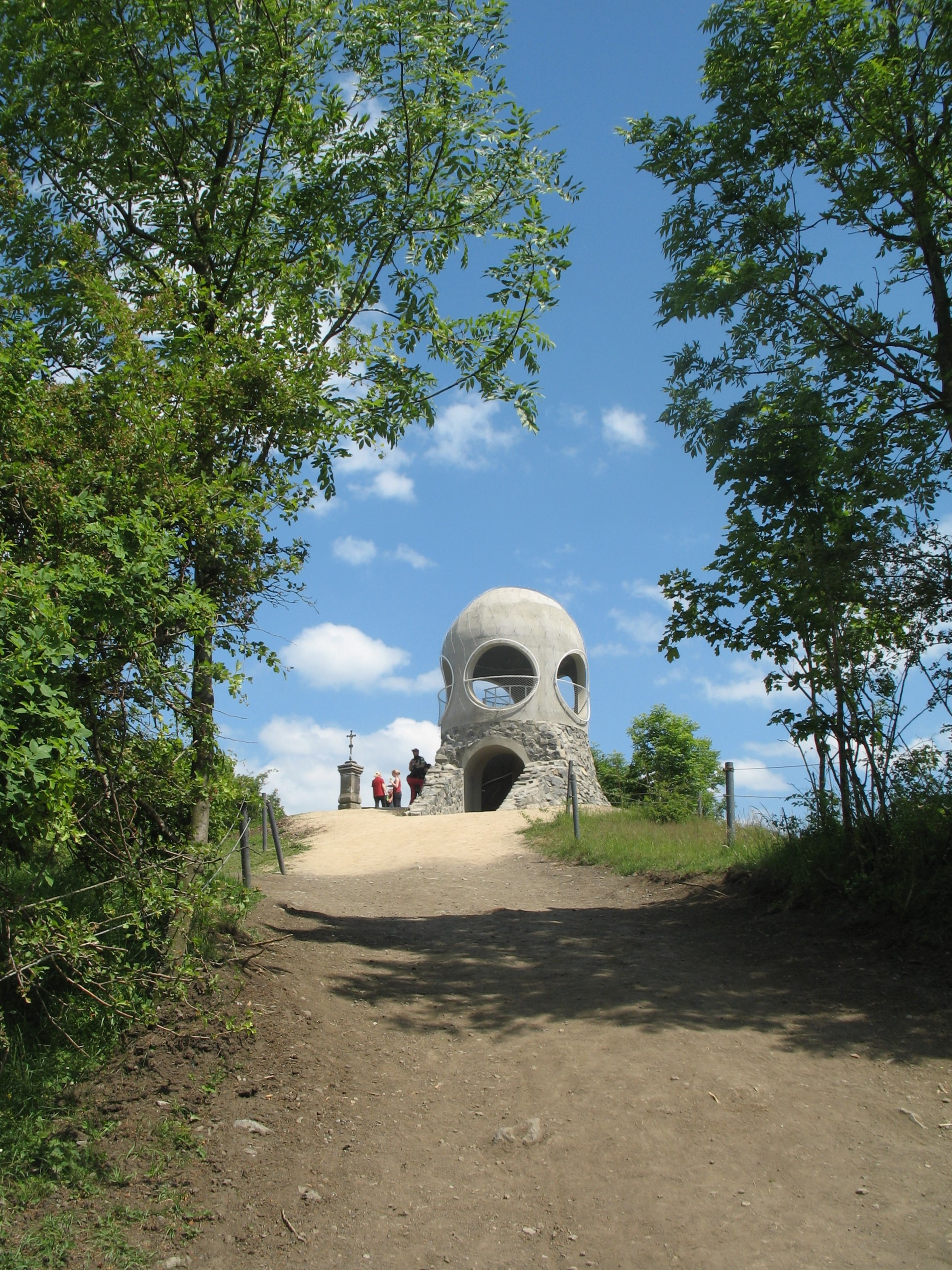 Observation tower Růženka in Růžová, Děčín District, Czech Republic